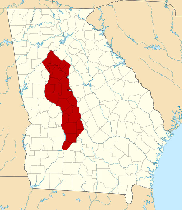 Creek cessions of the Treaty of Indian Springs (1821)